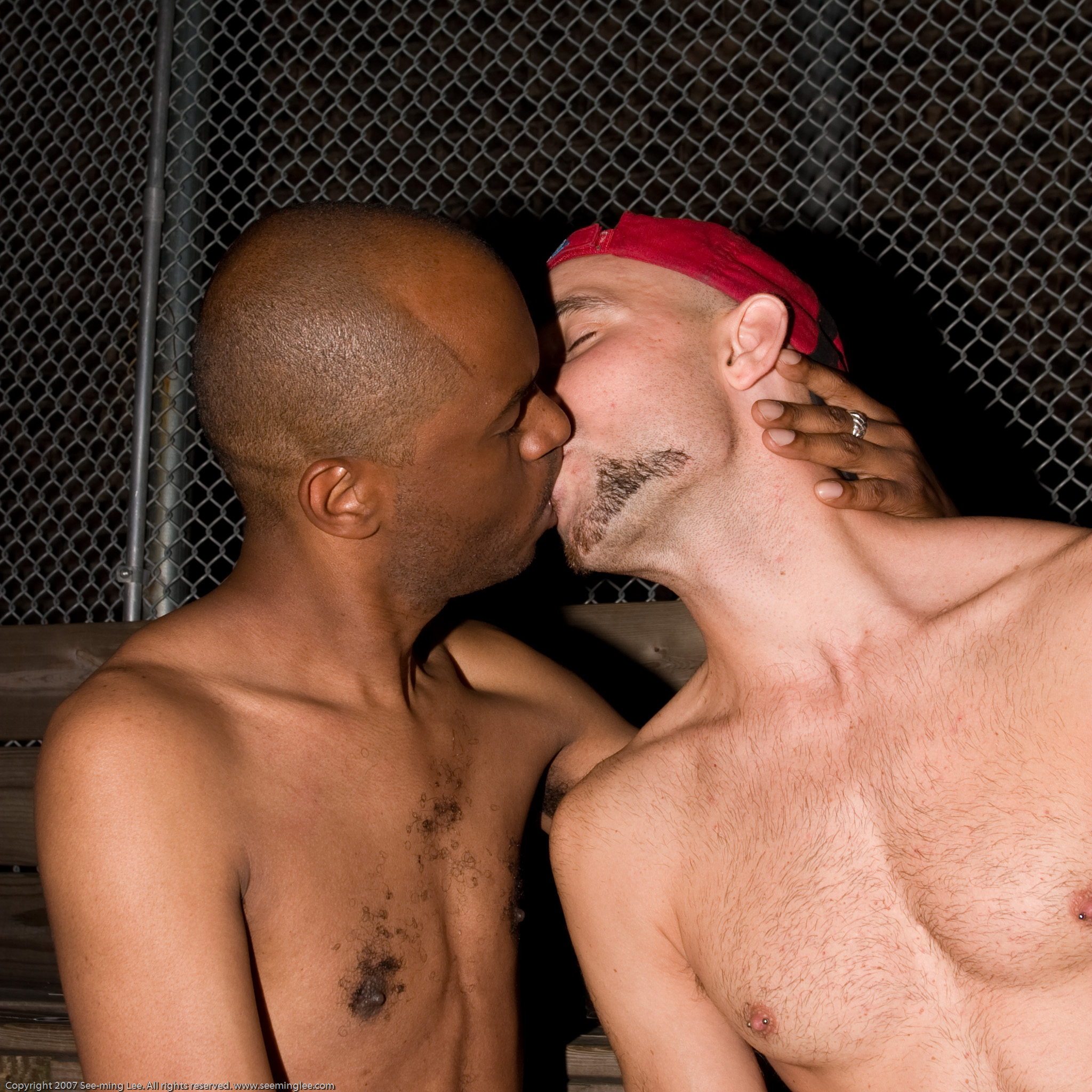 SML Pro Blog: Eagle NYC / 2007 / SML Friday night at the Eagle. SML Flickr Tags: 2007 SML Flickr Tags: Eagle NYC SML Flickr Tags: friends SML Flickr Tags: gay SML Flickr Tags: Kiss SML Flickr Tags: life SML Flickr Tags: LGBT SML Flickr Tags: men SML Copyright Notice Copyright 2007 See-ming Lee (SML LinkedIn / SML Pro Blog). All rights reserved.